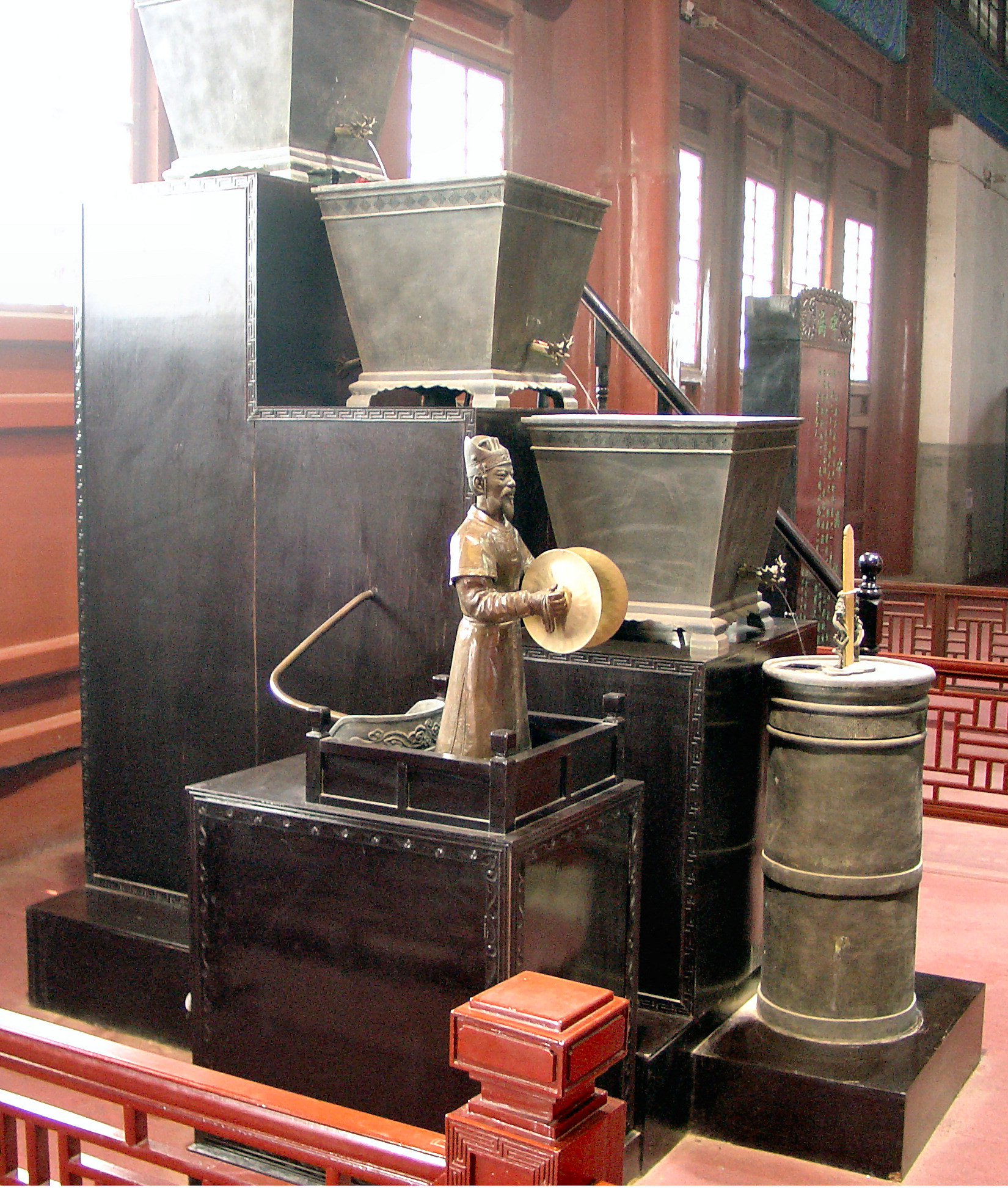 Replica Water Clock. Drum Tower, Beijing This is a replica of an ingenious Song dynasty clepsydra (water clock). Actually there was never water clock in the tower, so the replica here is simply a display piece for the modern visitor. The clock was regulated by the flow of water between the three buckets arranged in a "staircase" on top of the device. A cylinder, seen to the right, holds a level stick which indicated the time according to the water level inside the cylinder. The figure to the left, actuated by an overflow mechanism (tipping bucket), clashed its cymbals every quarter hour.